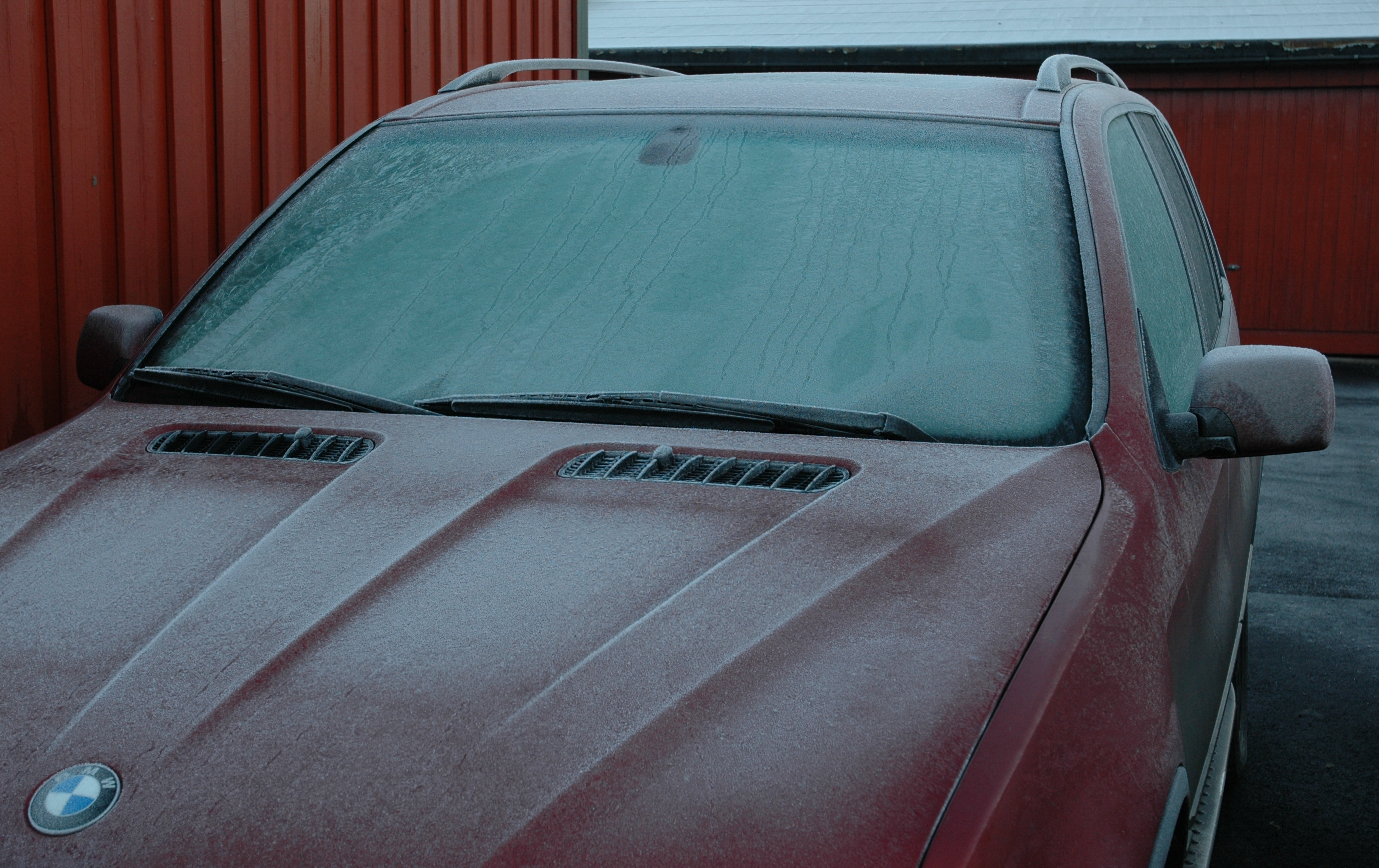 Frost on parked car, Norway.